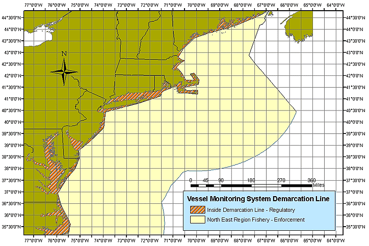 Northeast Region Fisheries Demarcation Lines